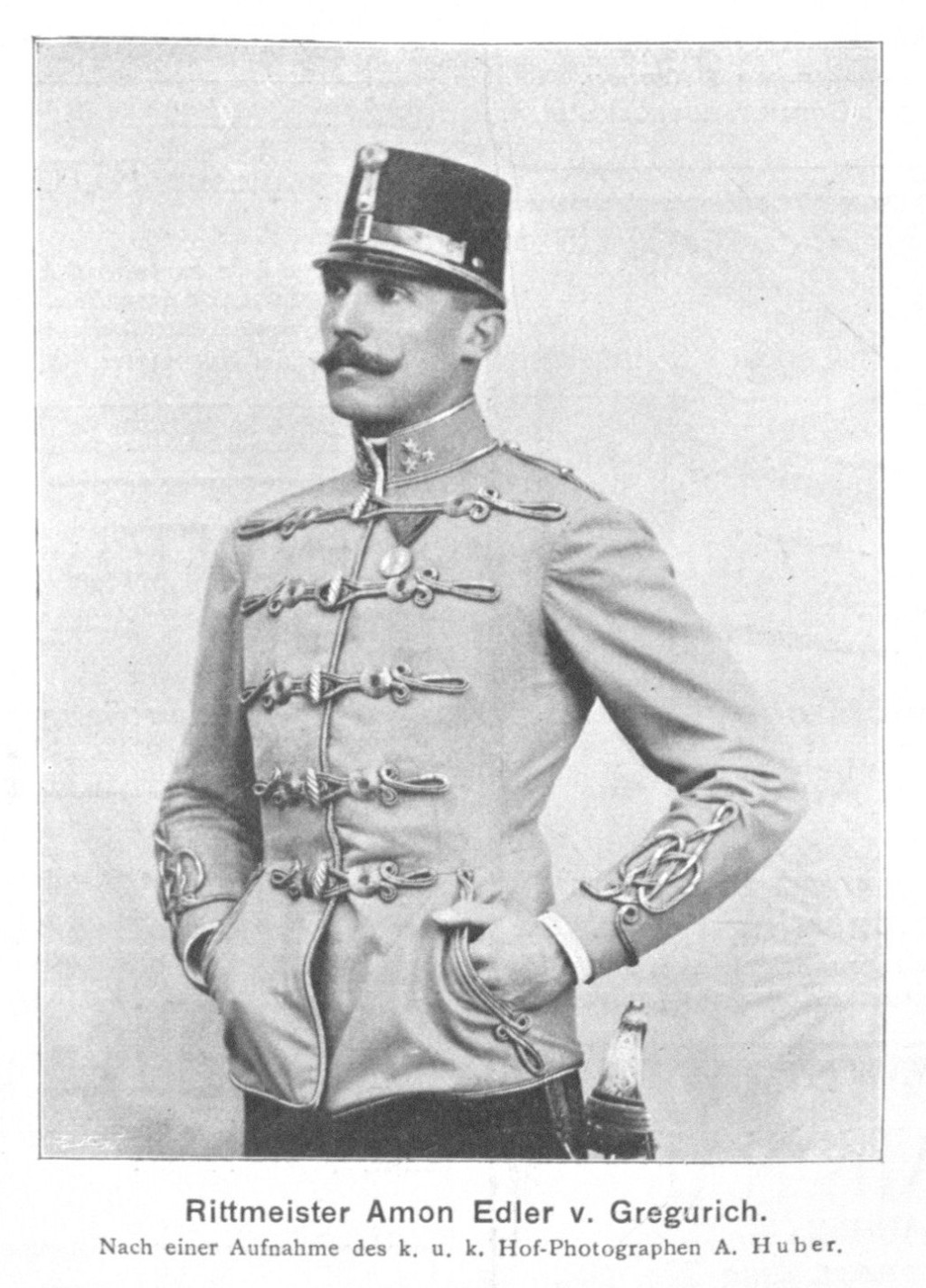 Portrait of Amon von Gregurich (1867-??), Hungarian fencer.